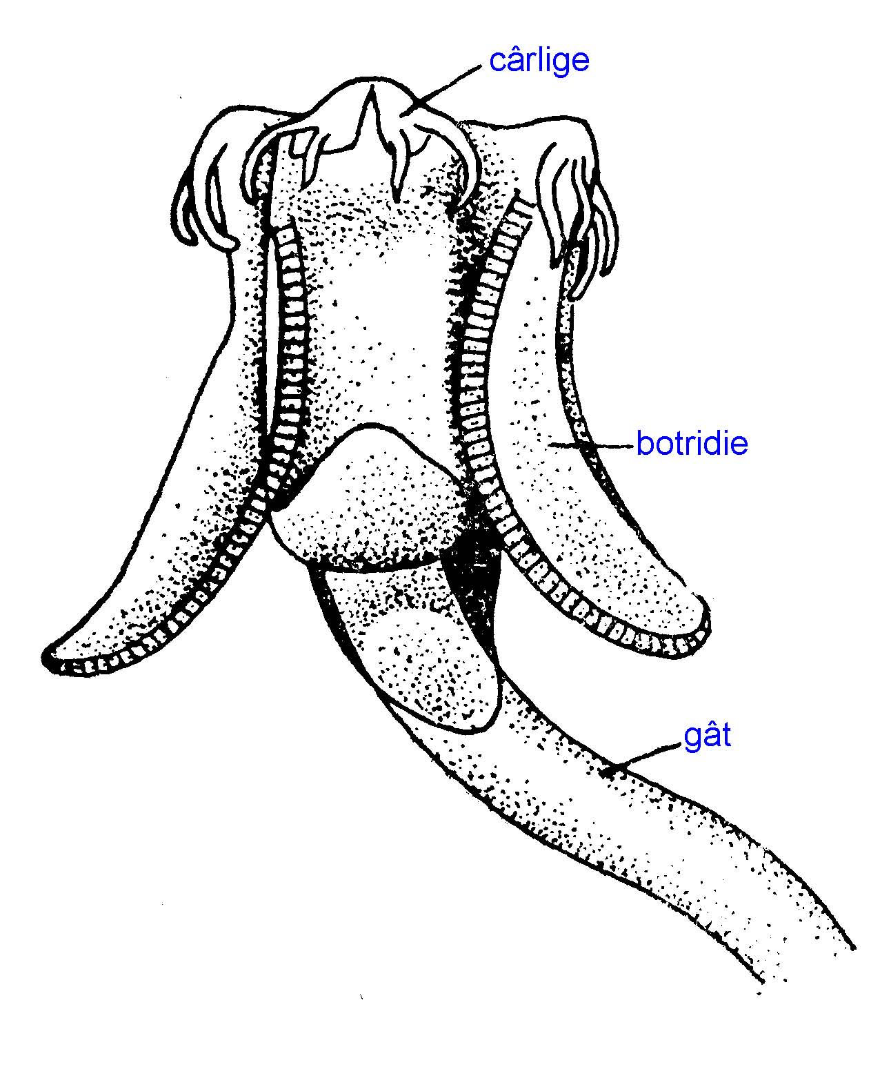 Pedibothrium longispine